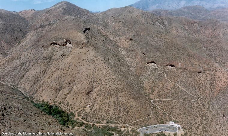 View of Tonto National Monument — in Gila County, Arizona. US NPS photo [1]